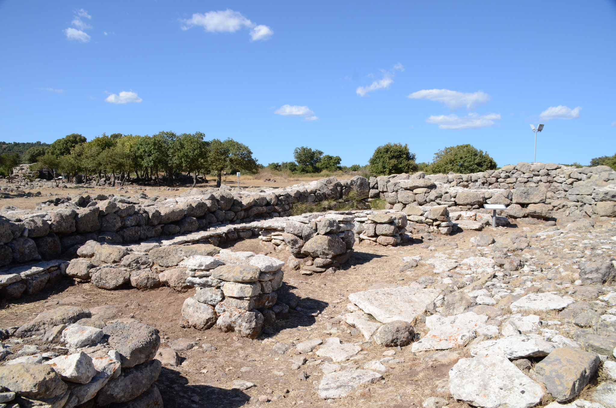 il mercato